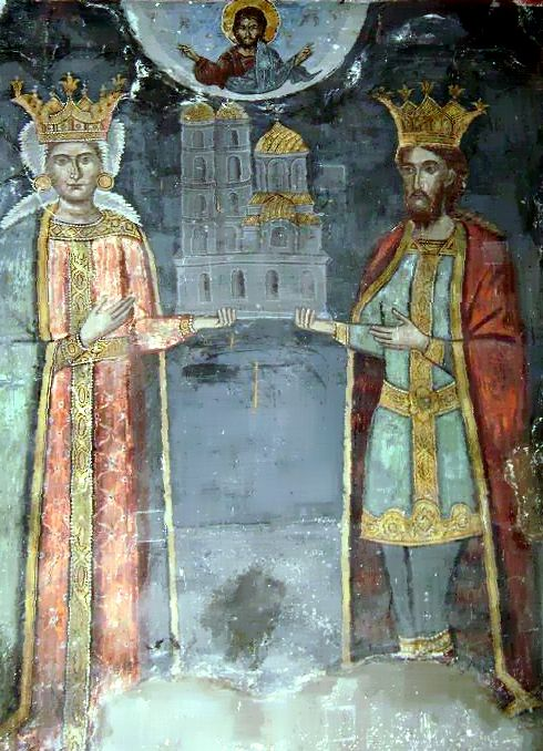 Basarab I and his consort. XIXth century fresco after a contemporary model from Biserica Domnească, Argeş